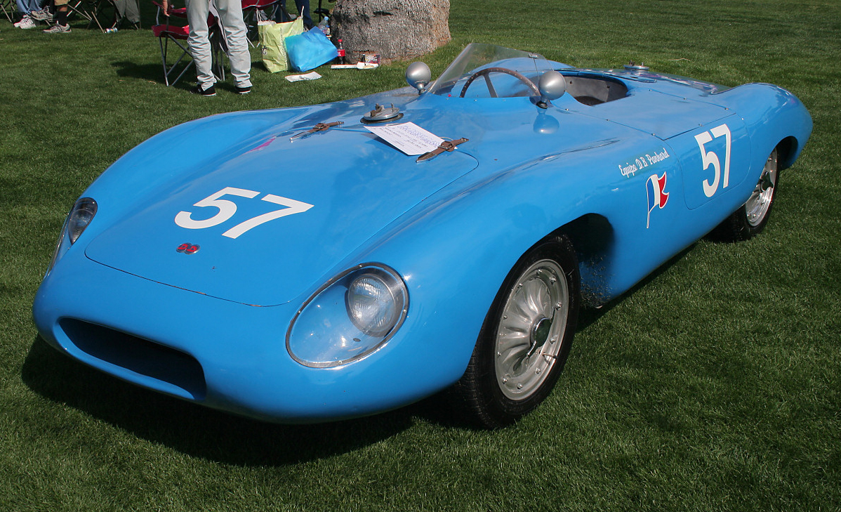 1955 DB Panhard HBR4 745cc, which raced at Le Mans in 1955 (DNF, Bonnet-Storez). DB then brought the car to Ireland for the TT and then stateside to compete at Sebring (March 1956). It was then sold to a US privateer who continued to race it until 1960. Restored and currently campaigned by Bernard Dervieux in SoCal.[1]